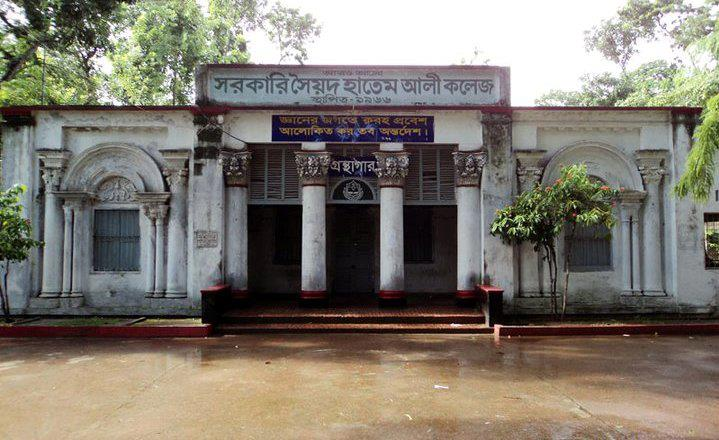 Front side of Govt. Syed Hatem Ali College